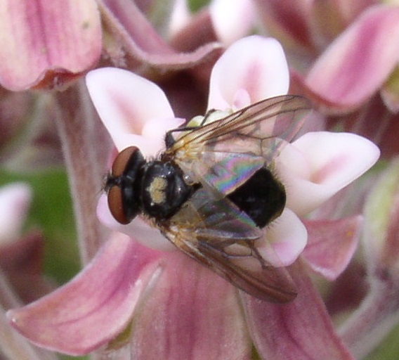 Male tachinid fly, Phasia aurulans, on common milkweed. Tupper Lake, Adirondacks Park, Franklin County, New York, USA.